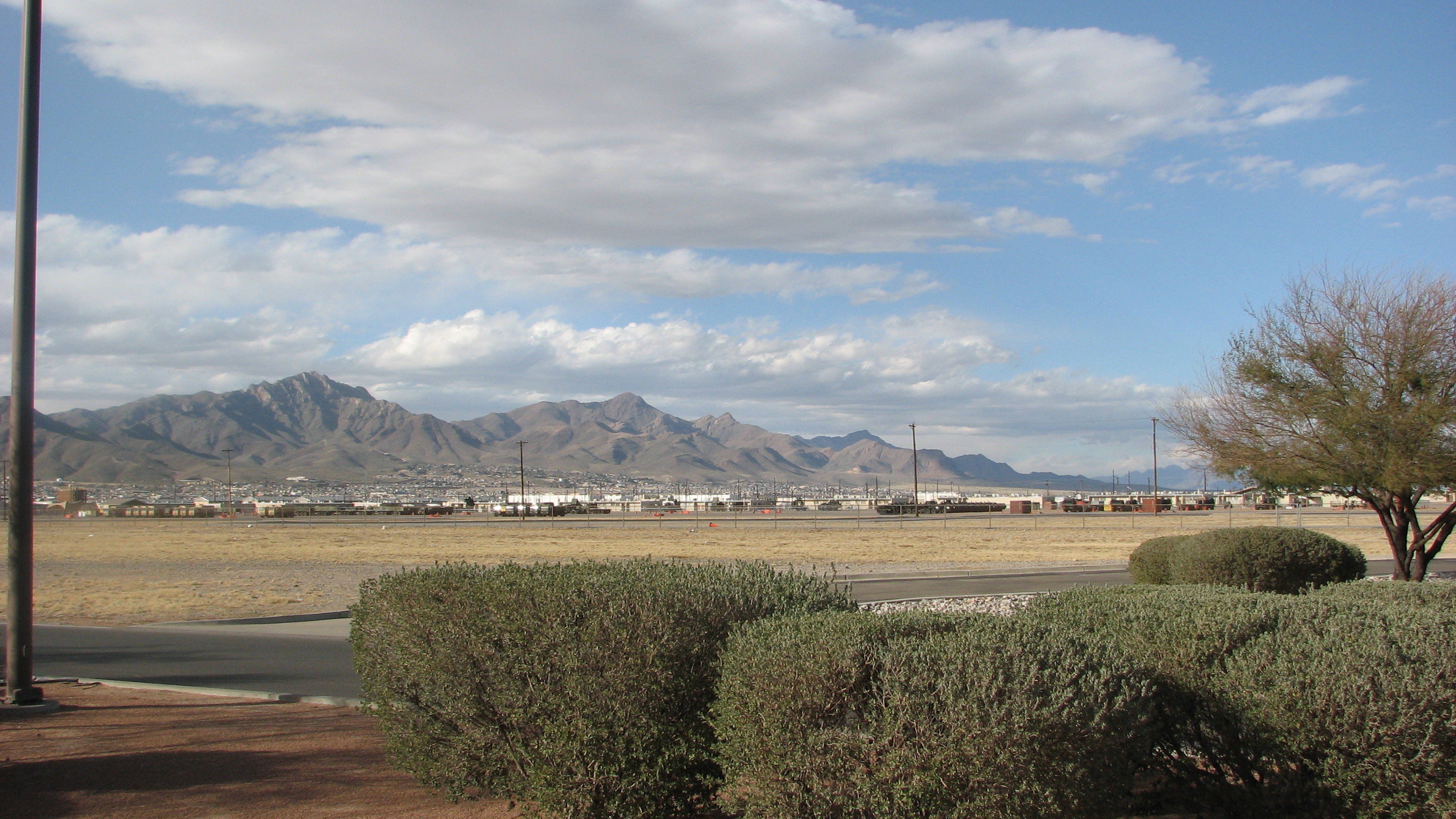 Part of the Franklin Mountains, El Paso, as seen from the Buffalo Soldier Memorial at Fort Bliss